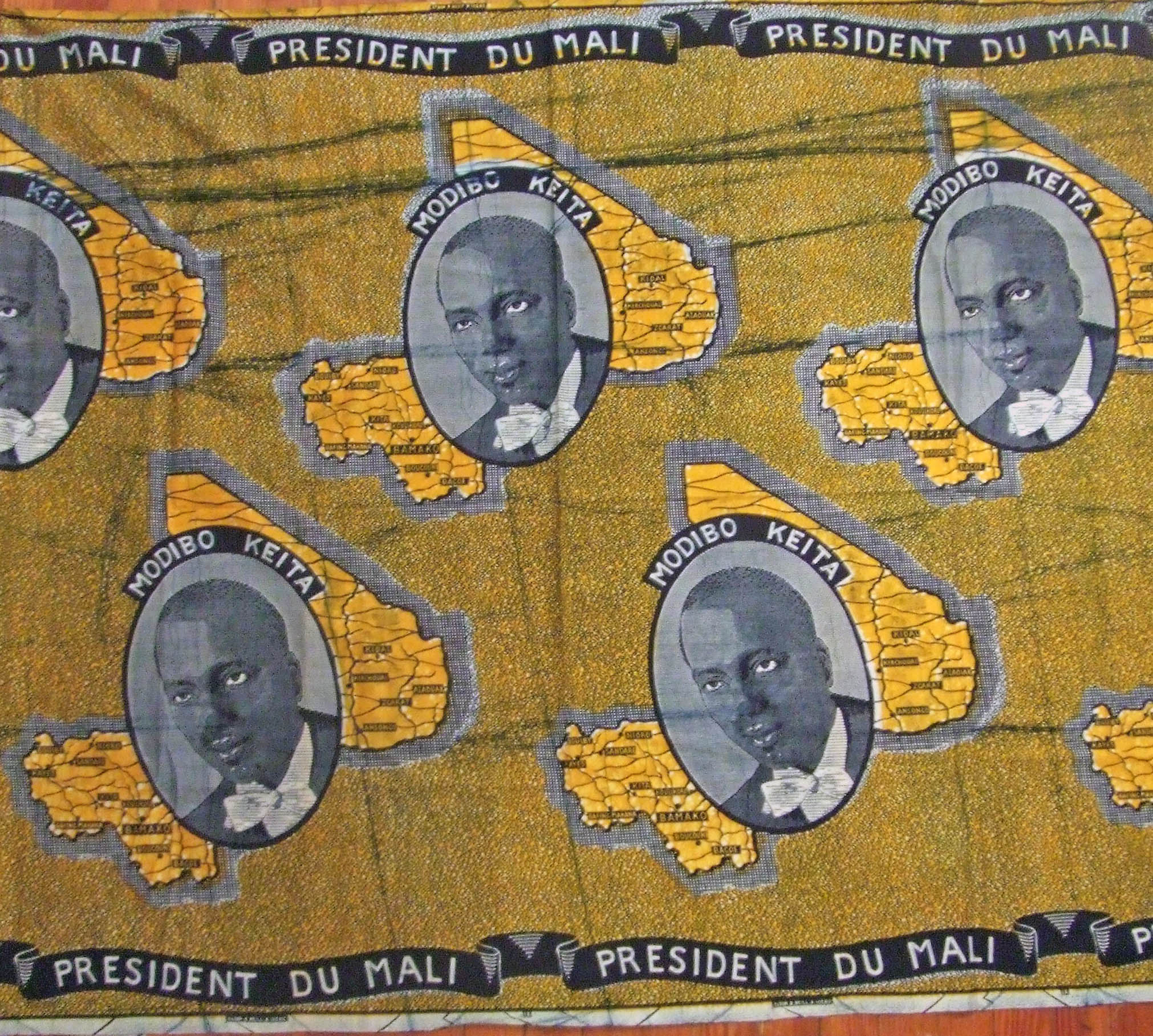 Commemorative wraps (Pagnes) printed on wax fabric in the 1960s. Malian Modibo Keita Mali